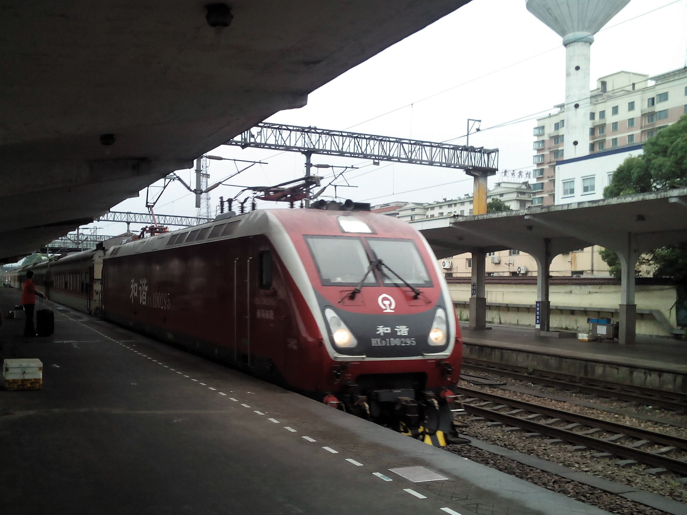 Shanghainan to Pingdingshan